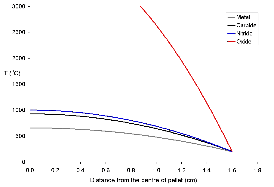 Nuclear fuel temp calcs